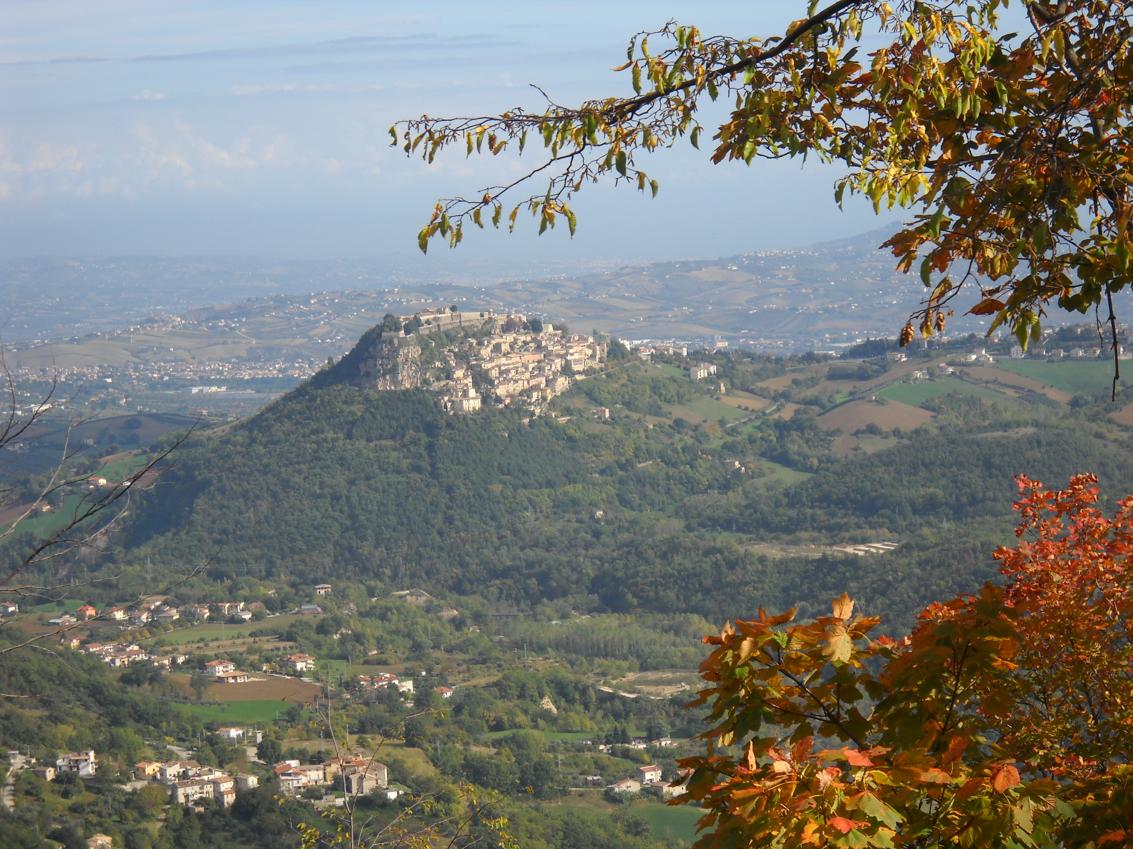 Civitella del Tronto